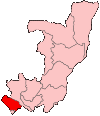 Map of the Republic of the Congo showing Kouilou region.